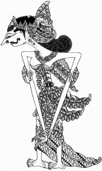 endang purwati